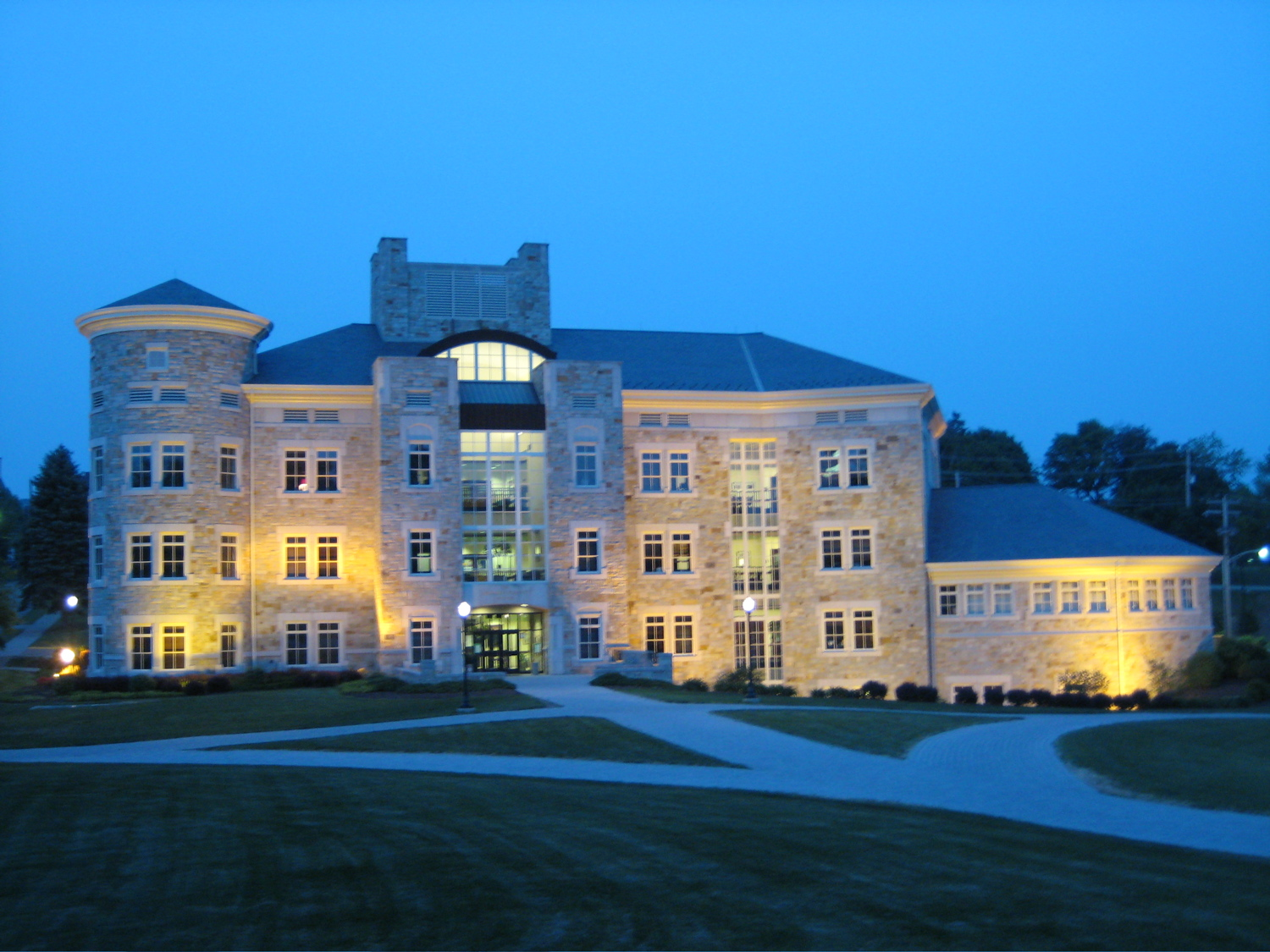 The Howard J. Burnett Center, Washington & Jefferson College Photo by Matthew K. Gardzina